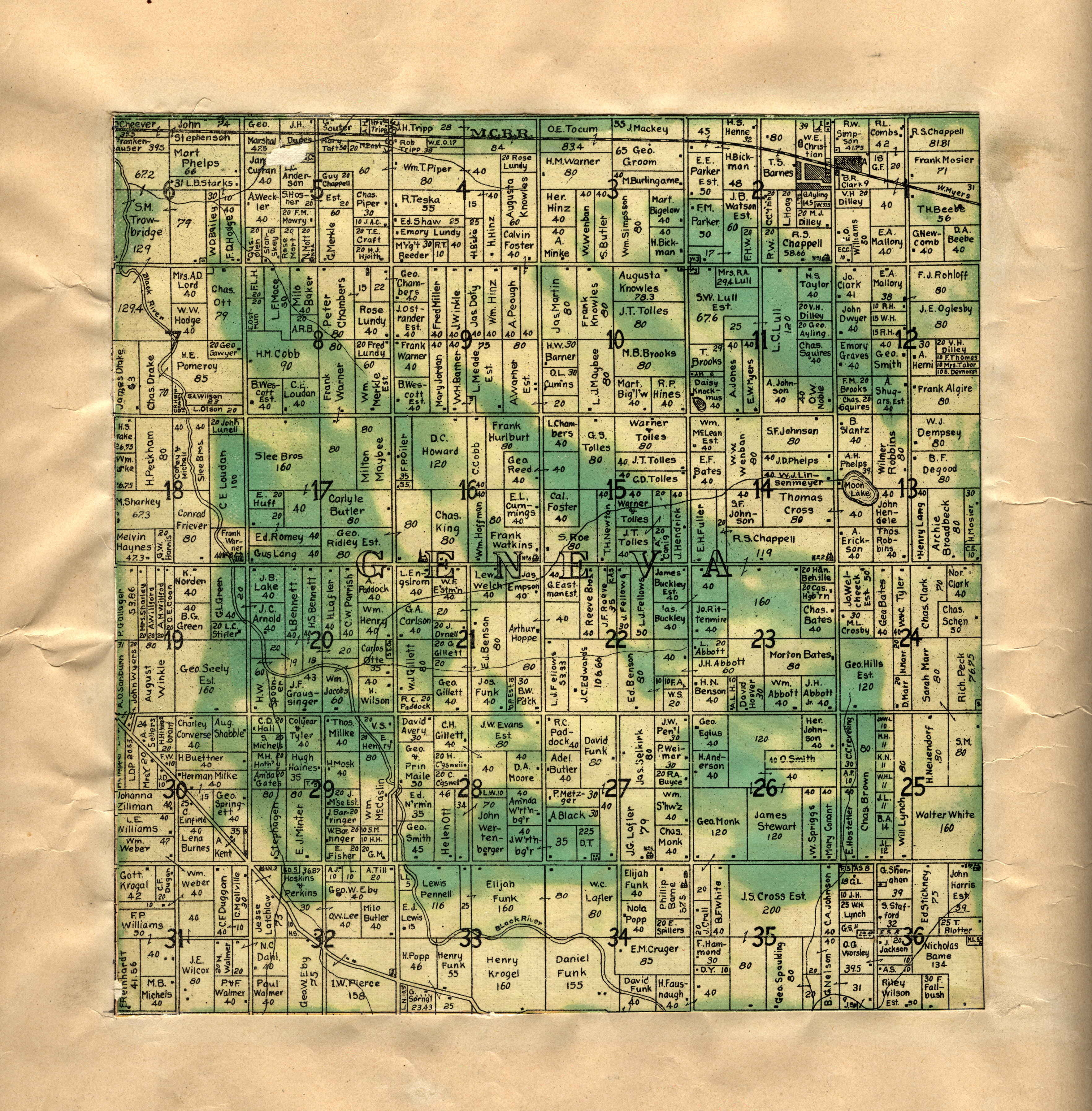 Digital scan of the Geneva Township portion of a larger 1906 map of Van Buren County, Michigan. The county map was cut into township-sized pieces, and the pieces were later found pasted into an 1895 atlas of Van Buren County, now in the collection of the Michigan State University Map Library. Each township map cut from the 1906 county map was pasted onto a blank page opposite the map of the corresponding township in the 1895 county atlas. Shows parcel boundaries and names of property owners, Public Land Survey System township and section numbering, roads, railroads, residences, schools, churches, municipalities, and water features. Print version was cut from map: Orton, M. K. A farm map of Vanburen County, Michigan / compiled from official records and local inspection by W.H. Goss, County Surveyor ; drawn by M.K. Orton. Rockford, Ill. : W.W. Hixson, [1906]. MSU Libraries catalog record